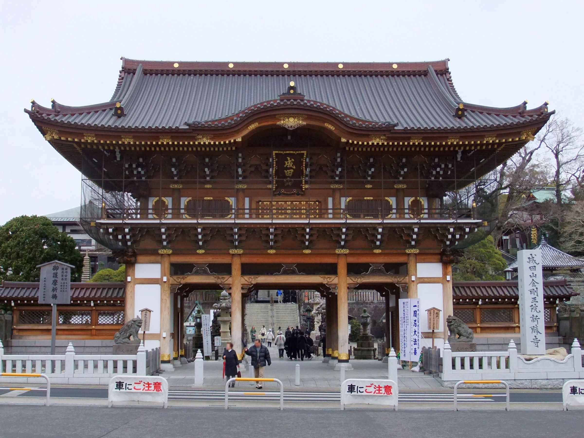 Main gate of Shinshō-ji temple in Narita, Chiba prefecture